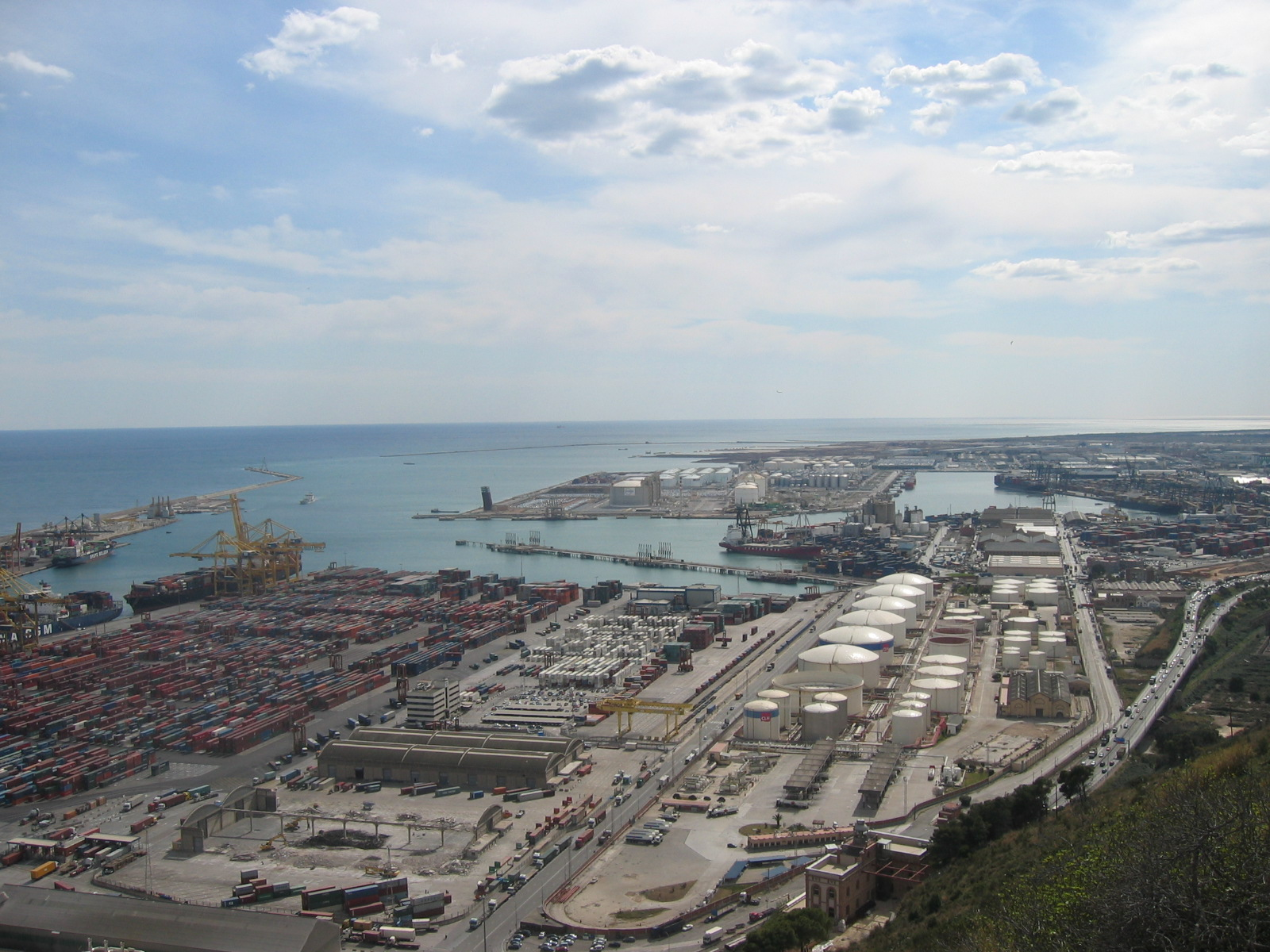 Barcelona Free Port; view from Montjuïc